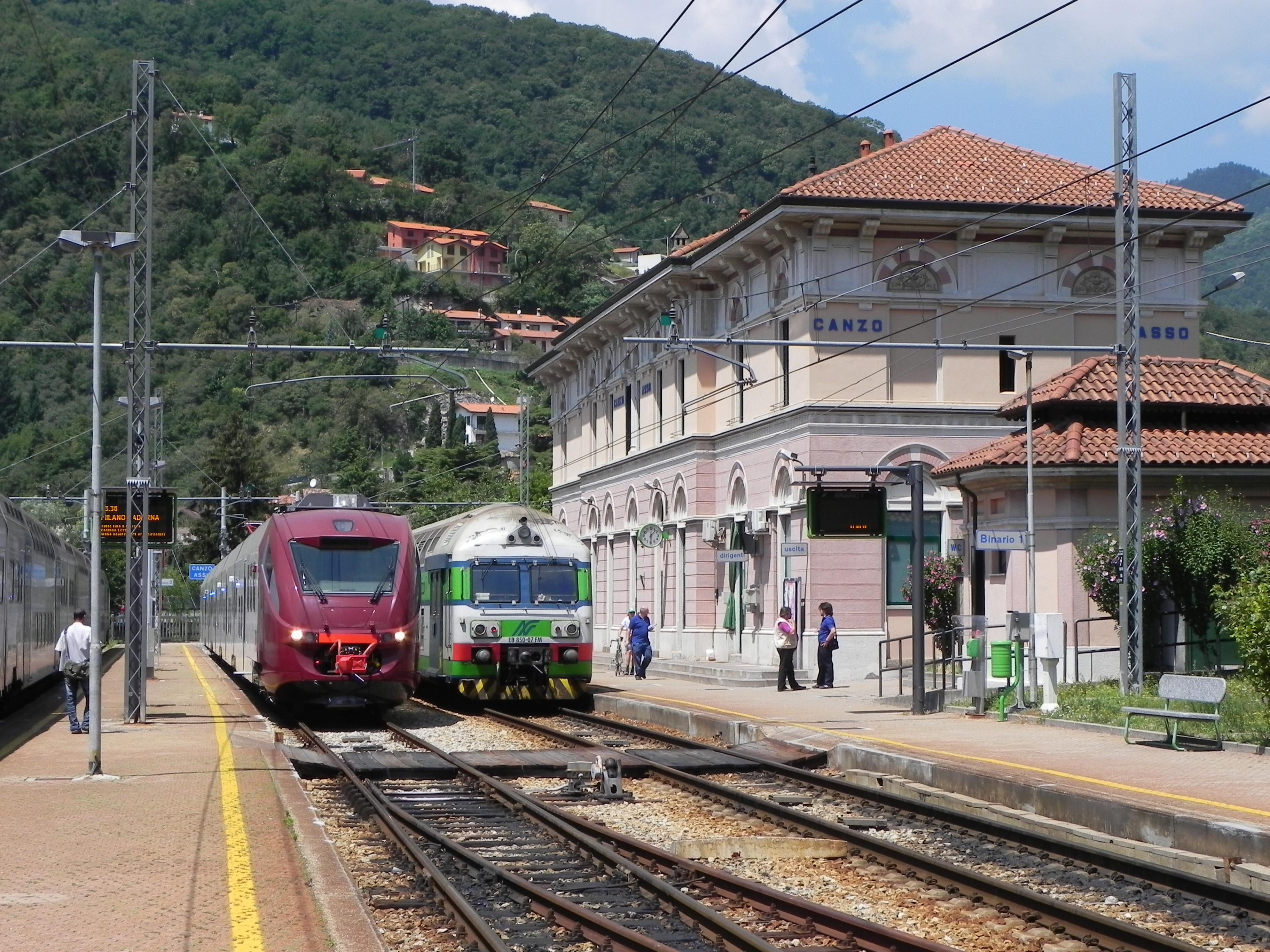 Stazione di Asso Canzo FNM